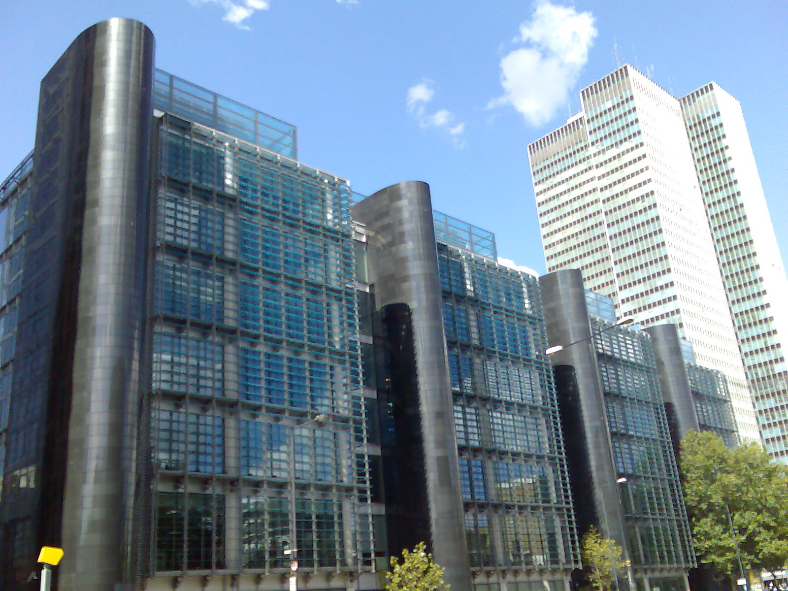 London office of Abbey bank (part of the Spanish Santander group) in the foreground on the Euston road - in background you can see the old Capital Radio building, Euston Tower